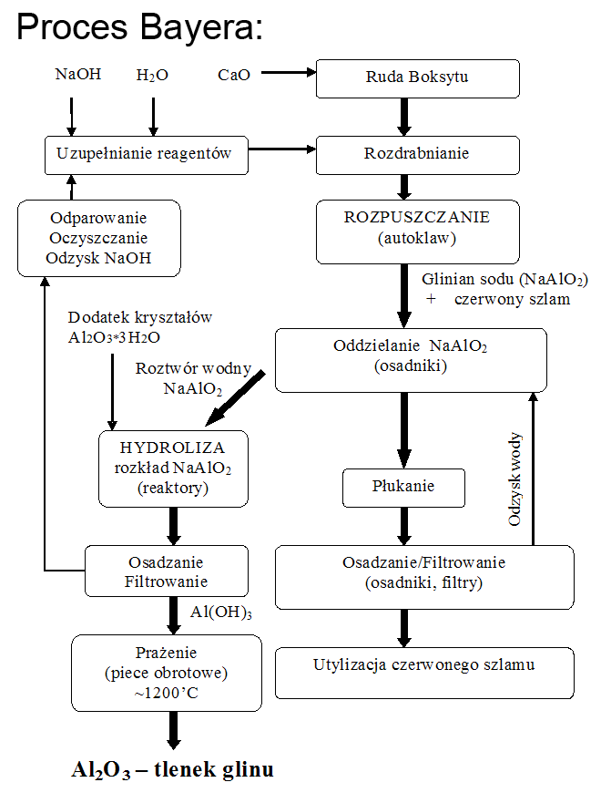 Schemat Procesu Bayera